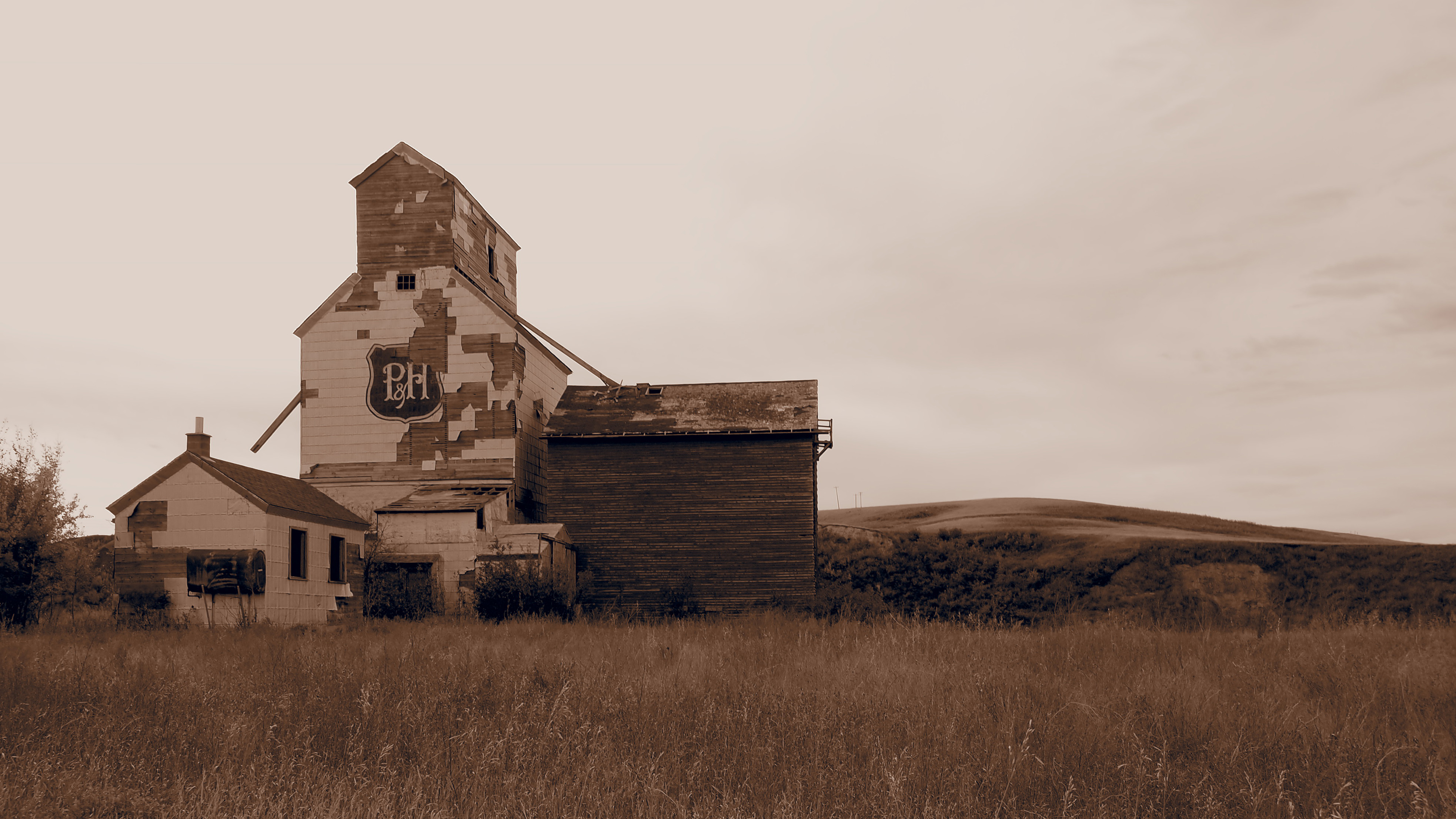 Took me two tries, but I did manage to find this place. Well worth the effort!